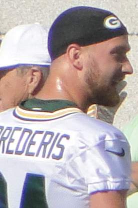 Packers wide receiver Jared Abbrederis at training camp.